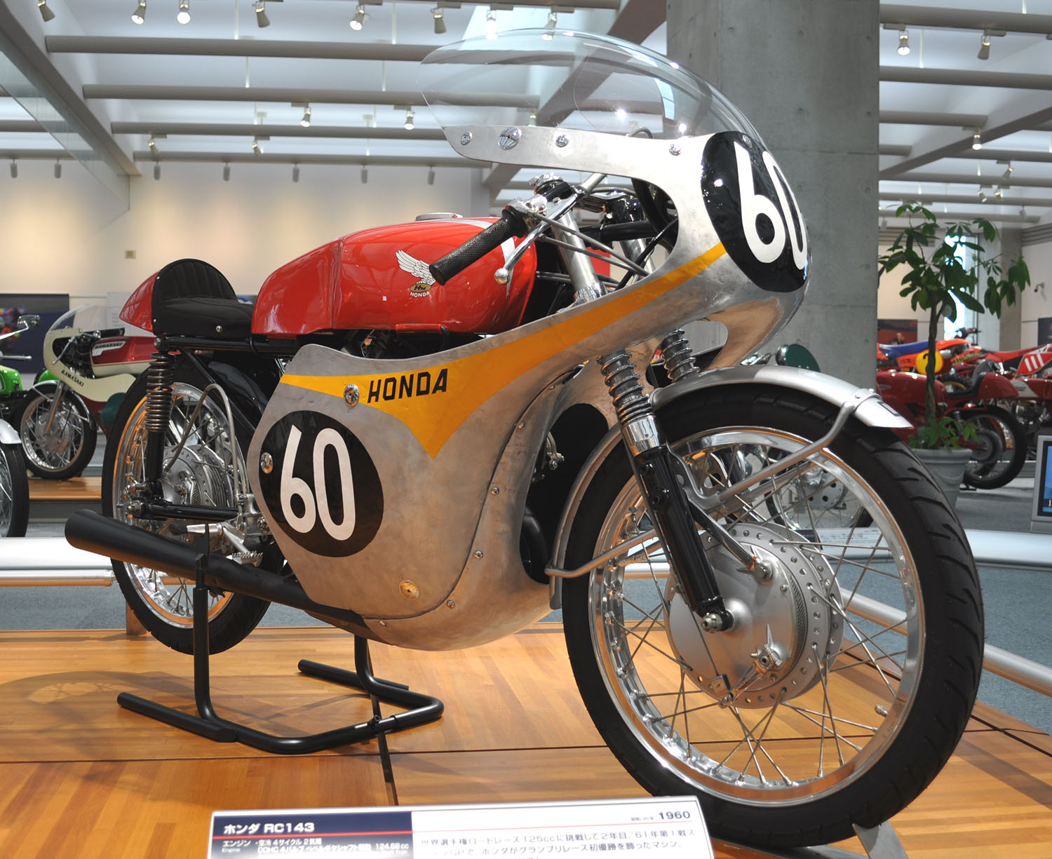 Honda RC143 (Tom Phillis, 1961)